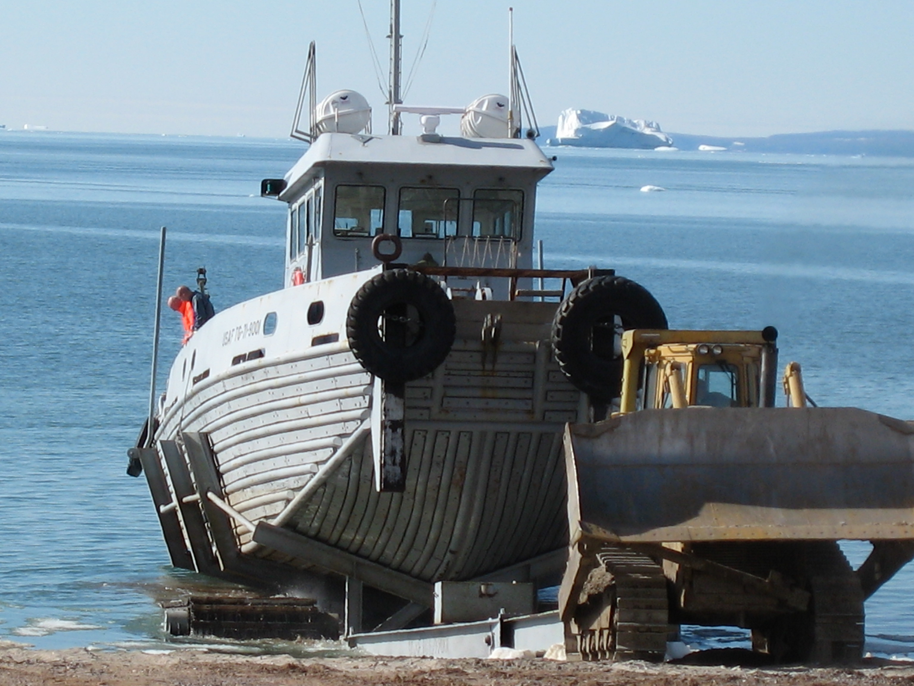 USAF Rising Star, used during the 2 months a year Thule, AFB's port is open Original caption: “THULE AIR BASE, Greenland – The “Rising Star” normally launches the first week in July, in preparation for port season. Thule’s deepwater port, located 750 miles north of the Arctic Circle at the Air Force’s northernmost base, is only open for two months of the year when the ice clears from North Star Bay. (U.S. Air Force photo)”